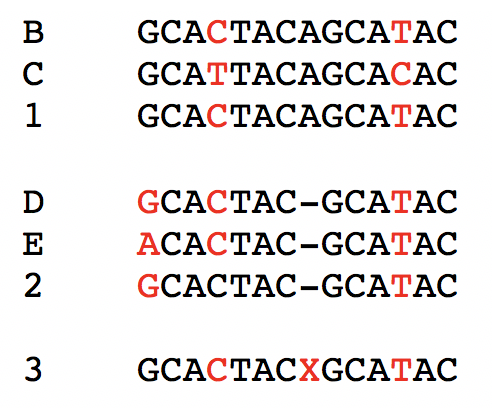 Algorithm to reconstruct ancestral sequences (explaining ASR_phylogeny.png). The ancestral sequence of sequence 1 can be reconstructed from B and C, as well as at least one outgroup, e.g. D or E. For example, sequences B and CC are different in position 4, but since sequences D and E have a C in that position, sequence 1 most likely had a C as well. Ancestral sequences can be reconstructed as long as at least one closely related outgroup sequence is available.